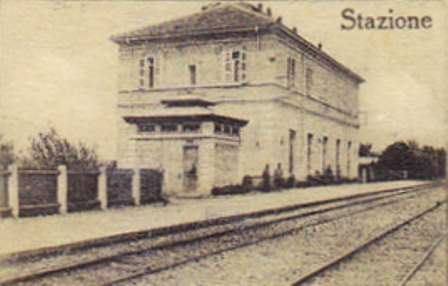 Buronzo, railway station